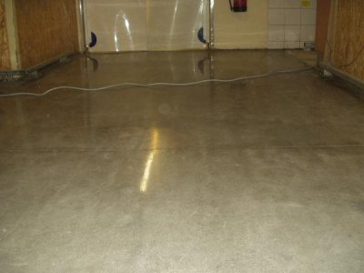 Polished concrete